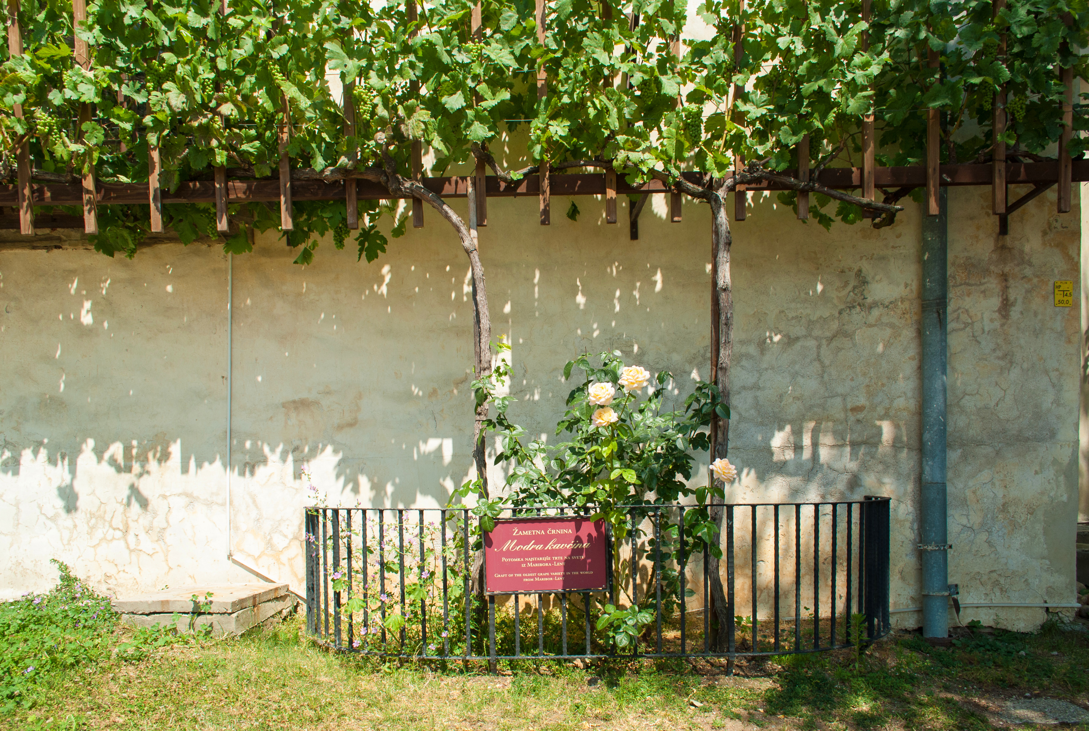 Ptuj Caslle, Modra Kavčina grapevine